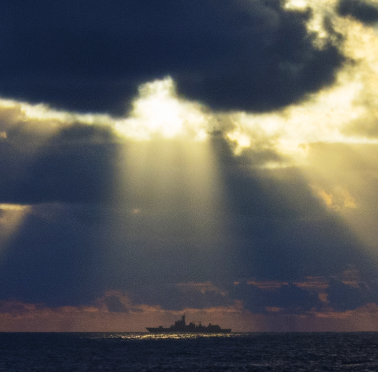 A closer look of the Type 052D guided-missile destroyer PLANS Hefei (DDG-174) being observed by sailors from the hangar bay of Nimitz-class aircraft carrier USS Carl Vinson (CVN 70).